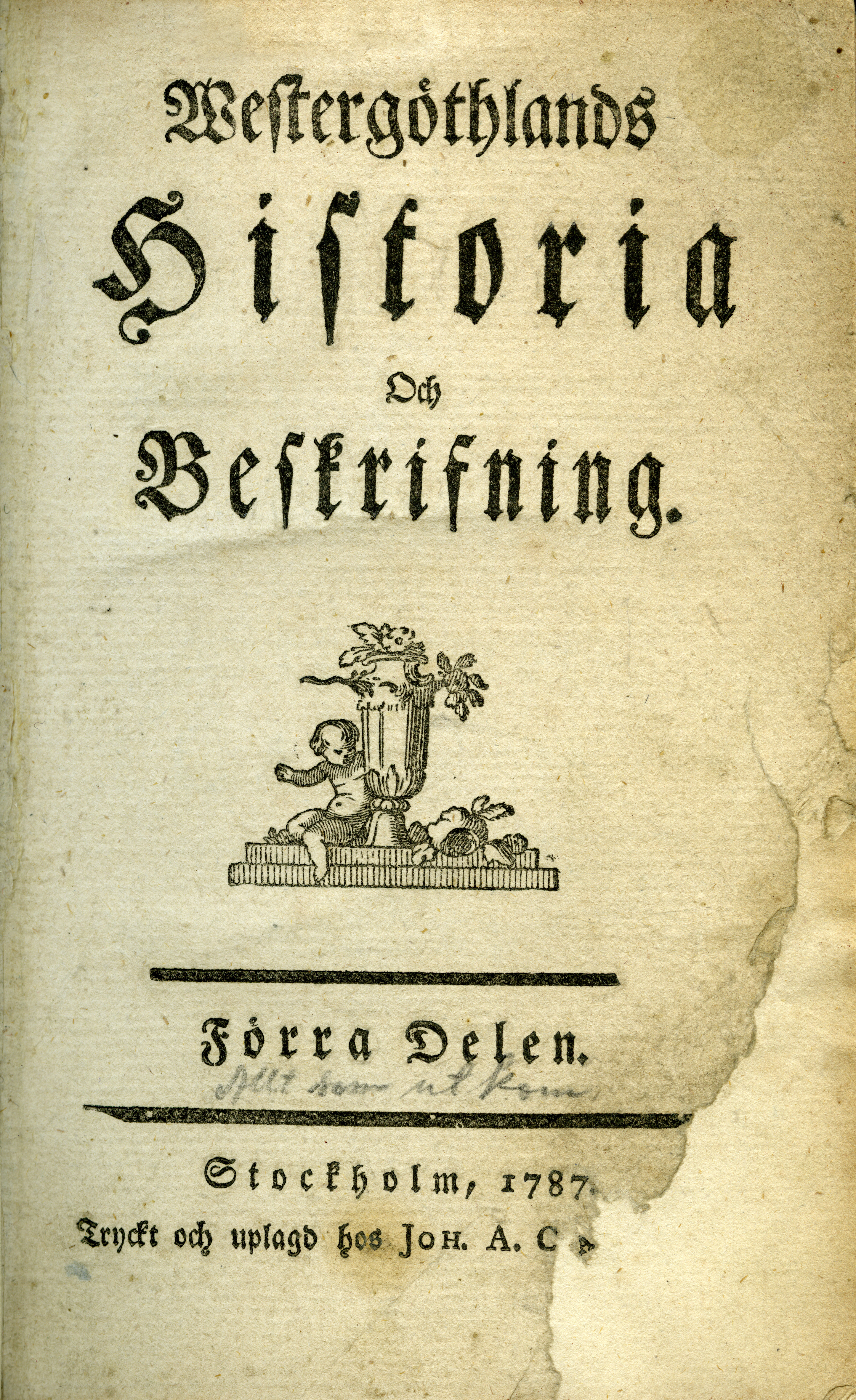 The title page to the book Westergöthlands Historia Och Beskrifning (i.e. "The History and Description of Västergötland") from 1787 by Gabriel Tidgren. Västergötland is a province in Sweden.